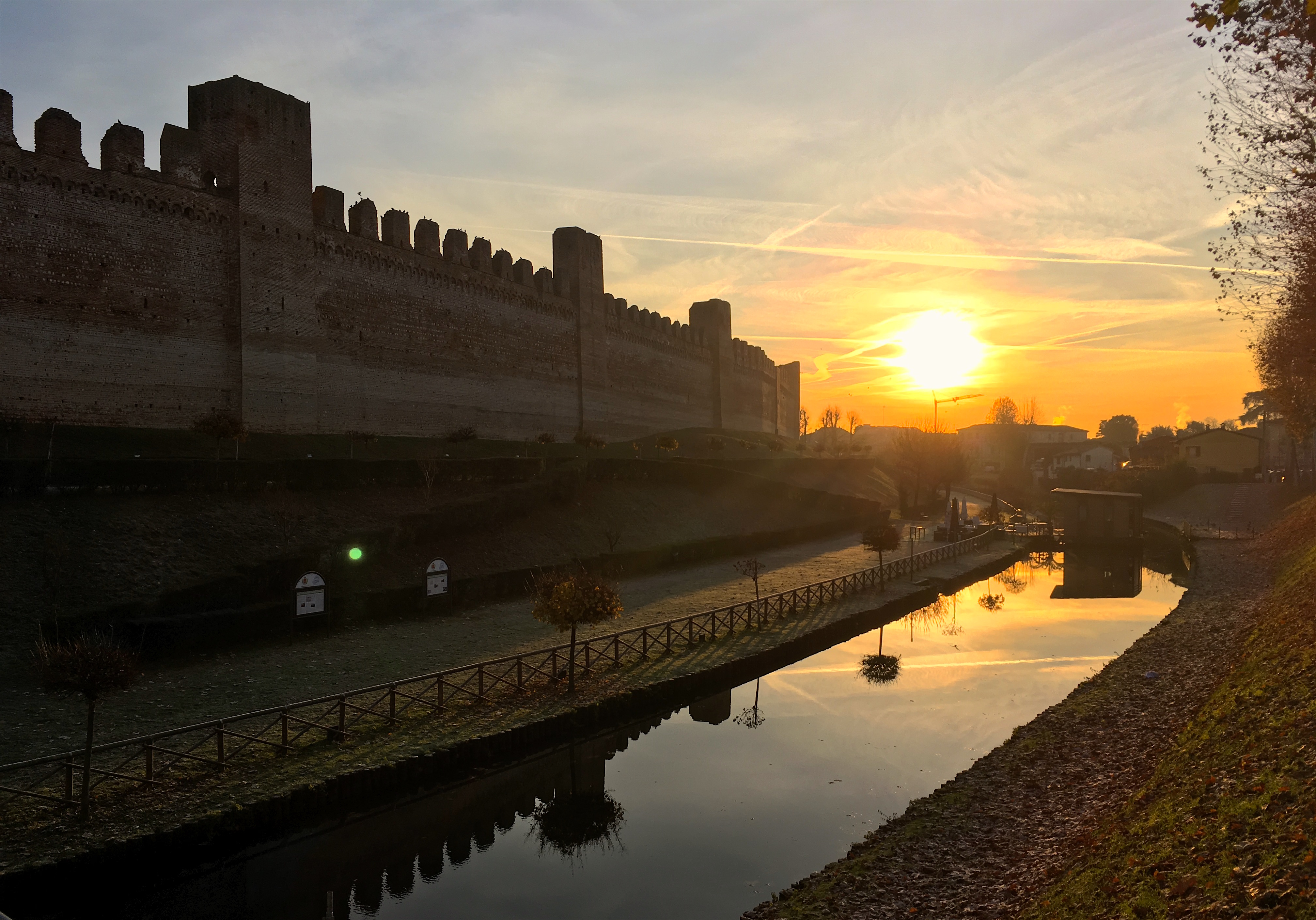 Medievals wall of Cittedella